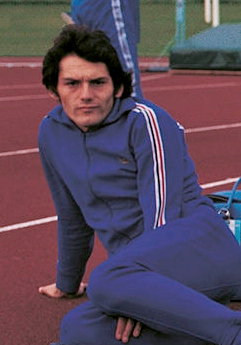 Pasqualino Abeti waiting near the Olympia stadion before the Olympic competition in which he would manage to qualify for the final of the 4x100-relay team and finish eighth. Munich, summer 1972.